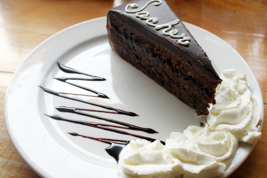 Sacher torte (dark chocolate cake split with raspberry jam and topped with chocolate ganache)